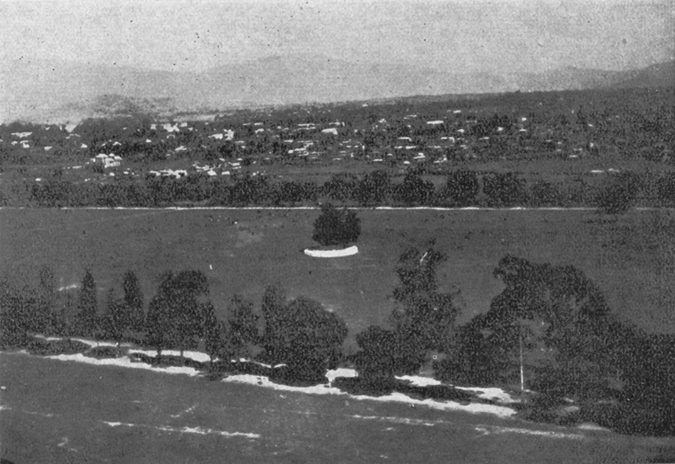 Tundikhel (Tinkhya) ground in the centre of Kathmandu that is used for parades, horse racing, festivals and grazing cows and goats in ca 1930. The tree at the center is known as Khariko Bot and also Chakala Sima.